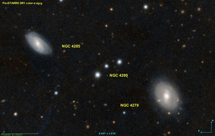 Image created using the Aladin Sky Atlas software from the Strasbourg Astronomical Data Center and Pan-STARRS ([ Panoramic Survey Telescope And Rapid Response System) public data.